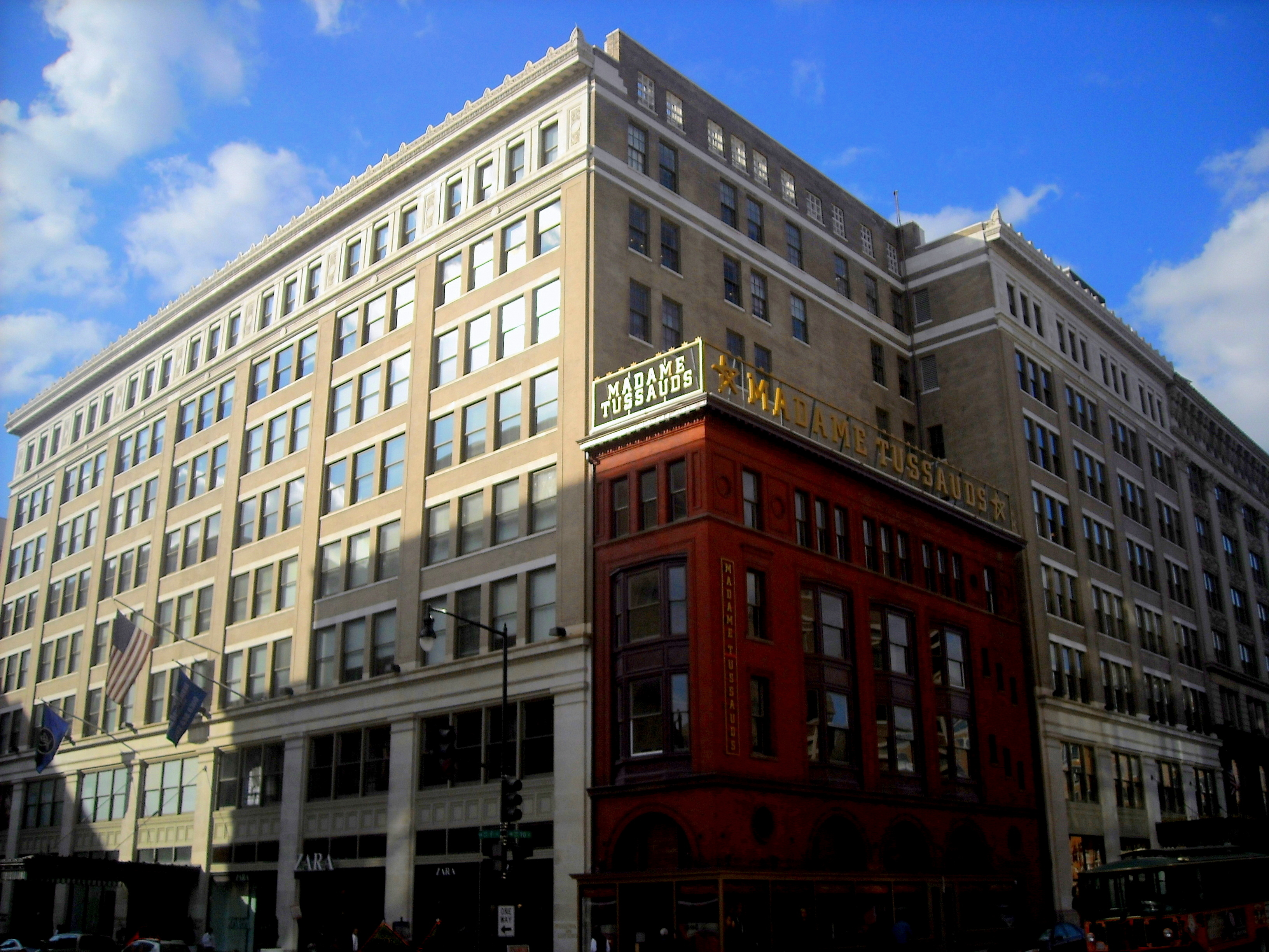 The former Woodward & Lothrop flagship store located at 1025 F Street, NW in the Penn Quarter neighborhood of Washington, D.C. The original building (on the left) was constructed in 1887; the smaller, red building (now a Madame Tussauds) was designed by Henry Ives Cobb in 1902. They're contributing properties to the Downtown Historic District.